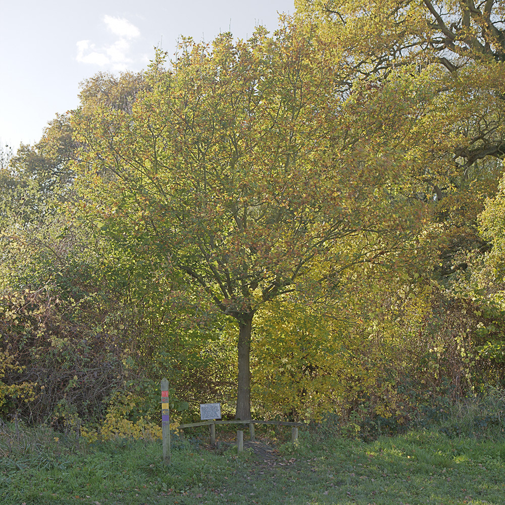 An oak tree planted at Runnymede, UK, on 2 December 1987 by John Otho Marsh, Jr., United States Secretary of the Army, with soil from Jamestown, Virginia, the first permanent English settlement in the New World, to commemorate the bicentenary of the United States Constitution. A National Trust sign notes that "the ideals of liberty and justice embodied in the Constitution trace their lineage through institutions of English law to the Magna Carta, sealed at Runnymede on June 15th, 1215".